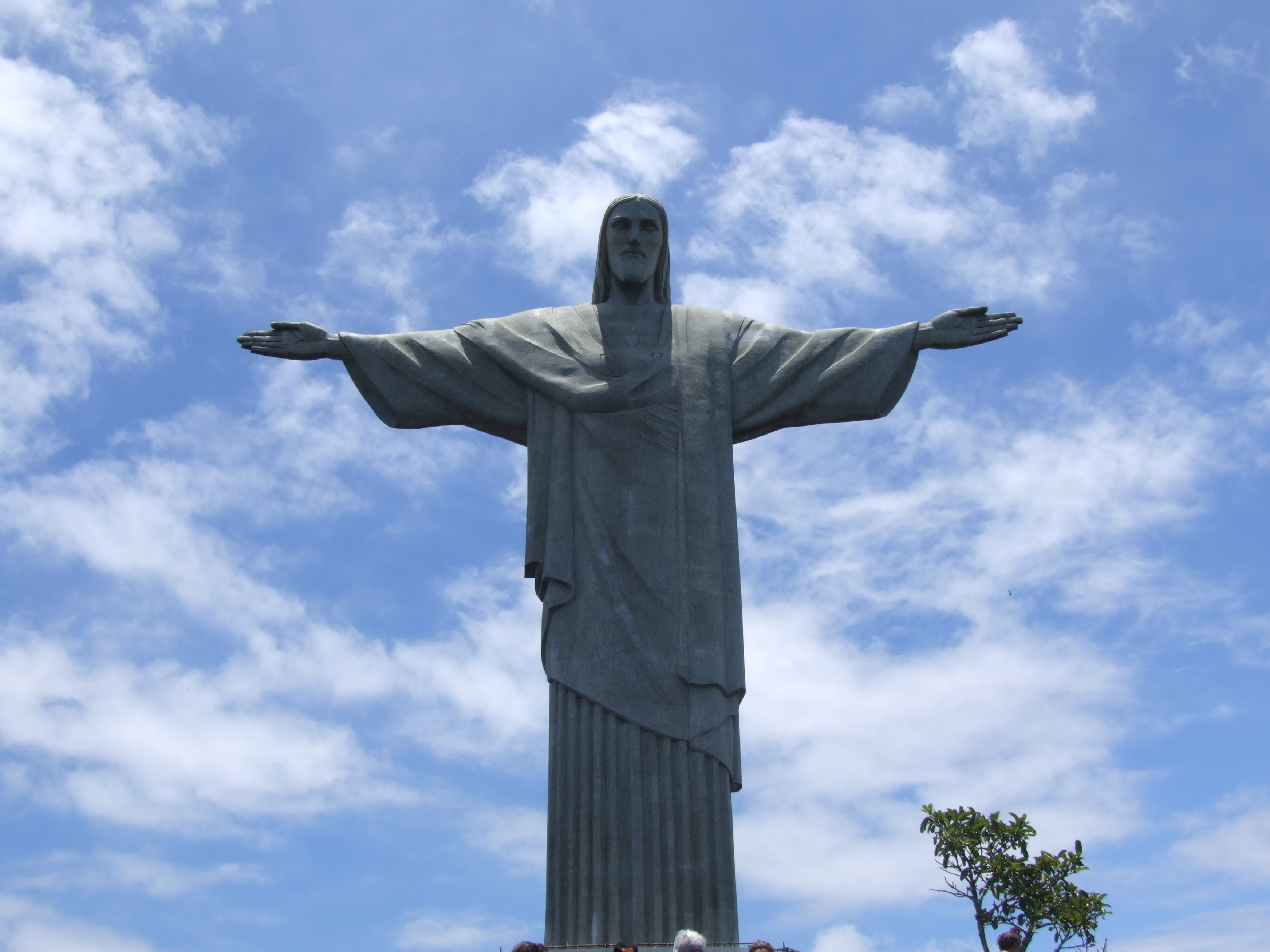 The statues of Christ the Redeemer on the Corcovado mountain at Rio de Janeiro, Brazil